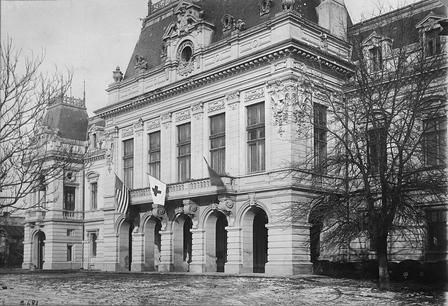 American Hospital in Jassy, Romania